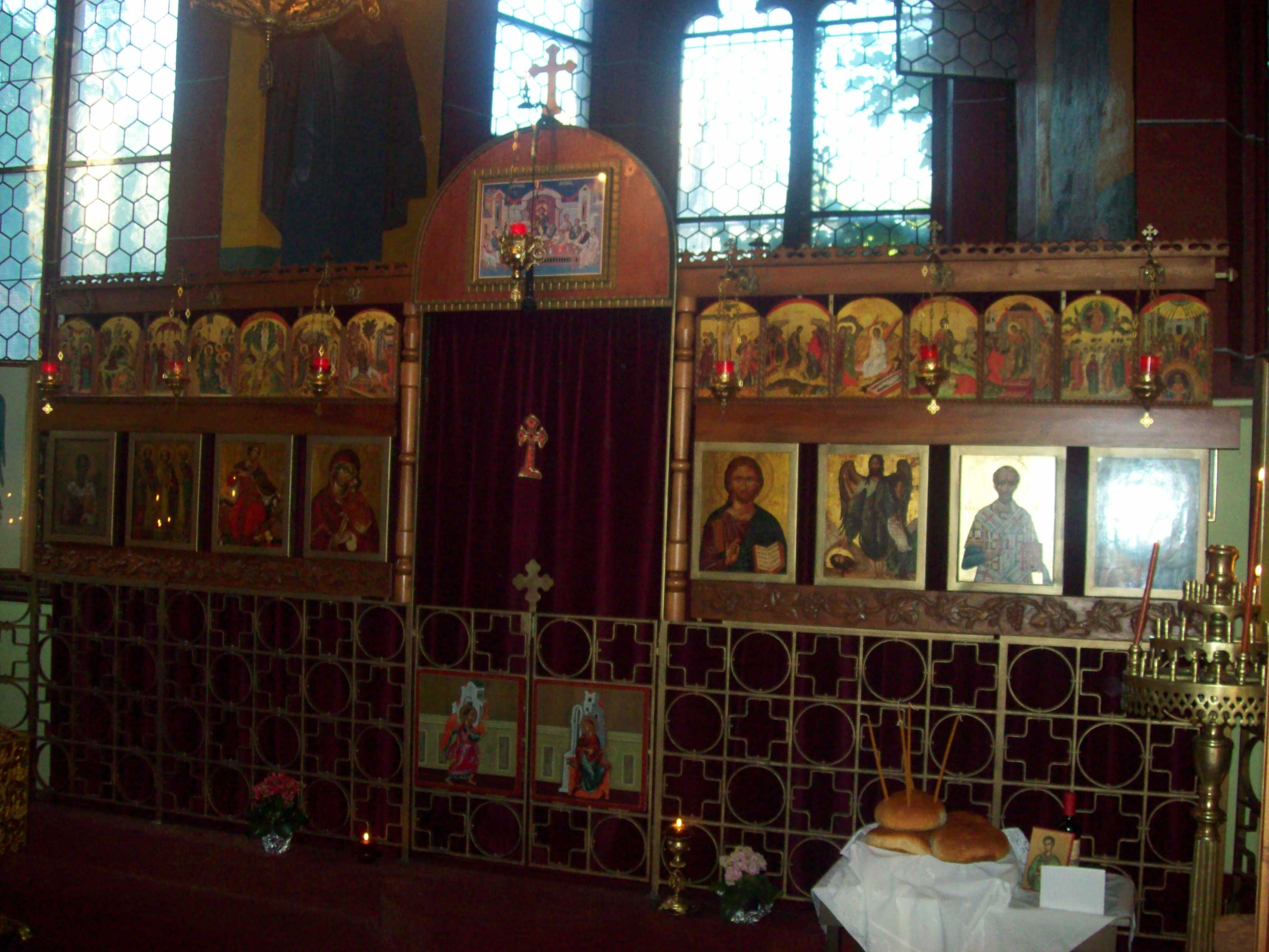 Katharinenspital Griechisch-orthodoxe Kirche St.Katharina Ikonostase